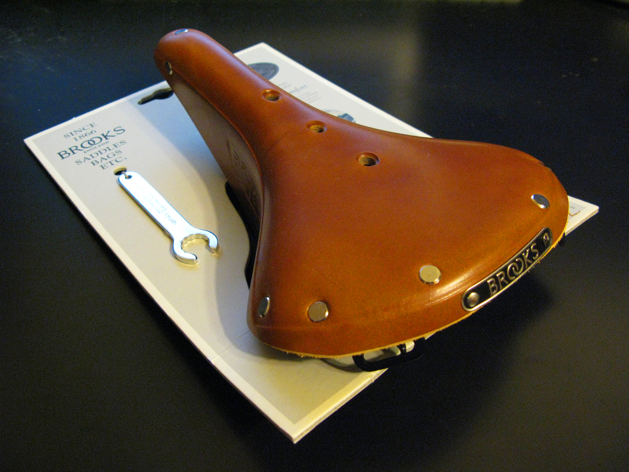 Brooks B17 Model